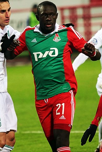 Oumar Niasse